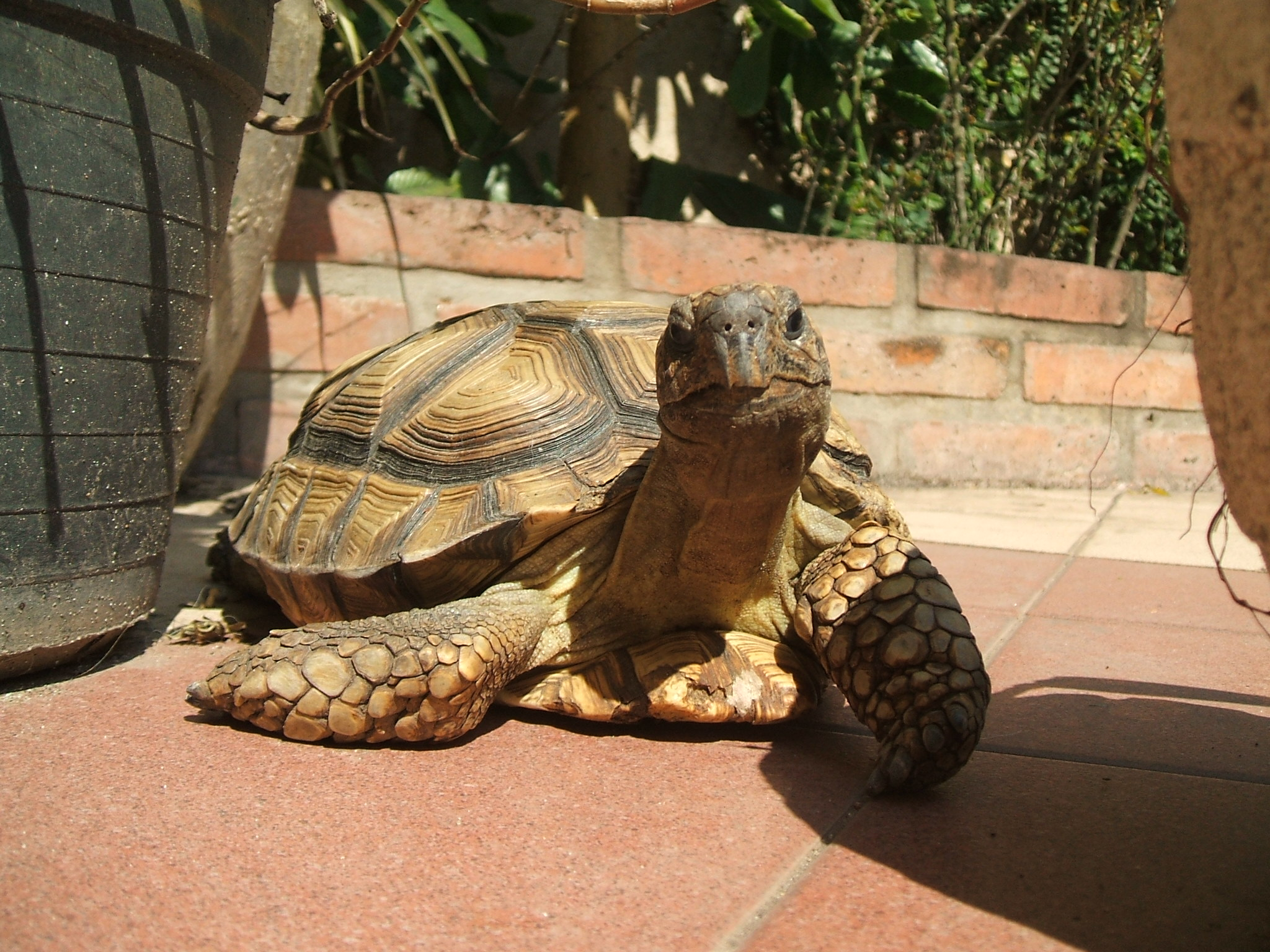 Foto ilustrativa de la especie Chelonoidis petersi en cautiverio